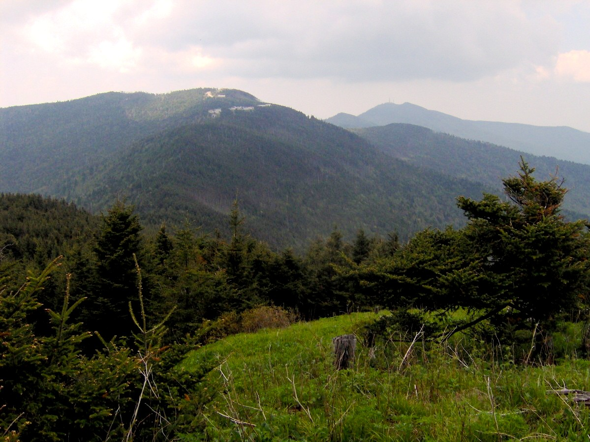 Mount Mitchell (left, foreground) and Clingmans Peak (right, background, with the antennae) in the Black Mountains of Yancey County, North Carolina, in the southeastern United States. The view is south from Mount Craig.